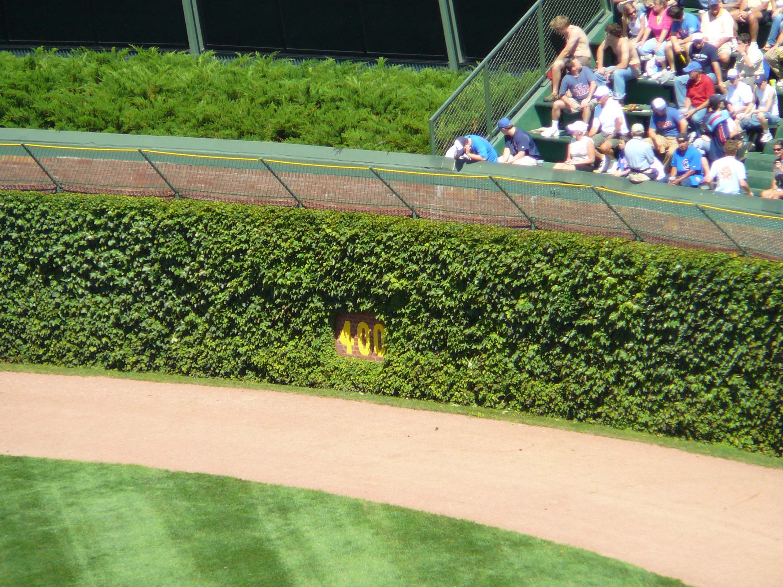 Wrigley Field center field wall with ivy covering